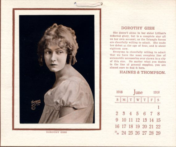 Dorothy Gish, calendar for the Hudson Super-Six